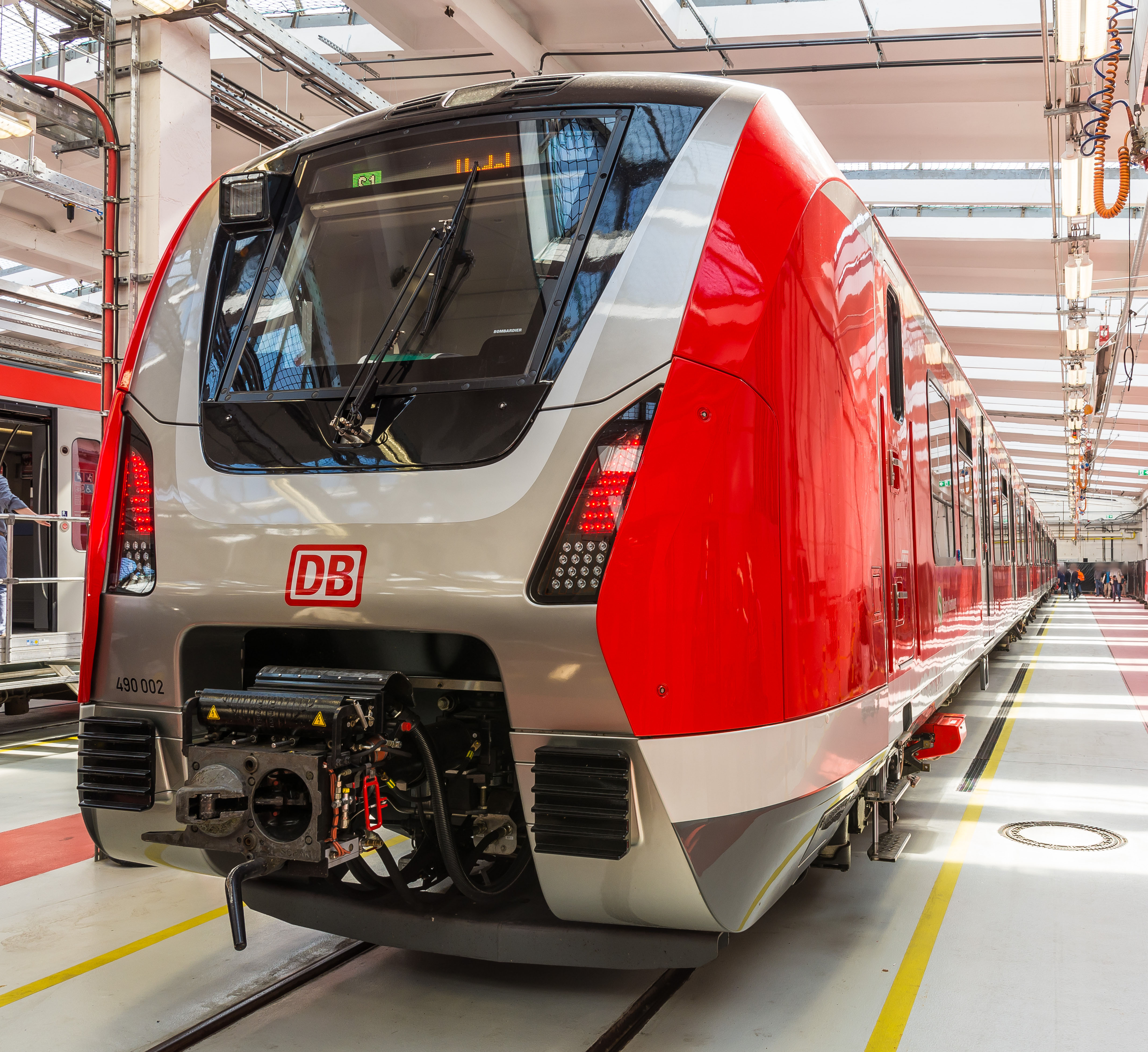 Trainset 490 002 of the Hamburg S-Bahn. Seen at an open day at the S-Bahnn works at Hamburg-Ohlsdorf. The train had not seen regular service yet.